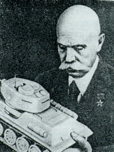 Professzor Yevgeni Oscarovich Paton az Ukrán Tudományos Akadémia alelnöke kezében egy T-34 tank modelljével.